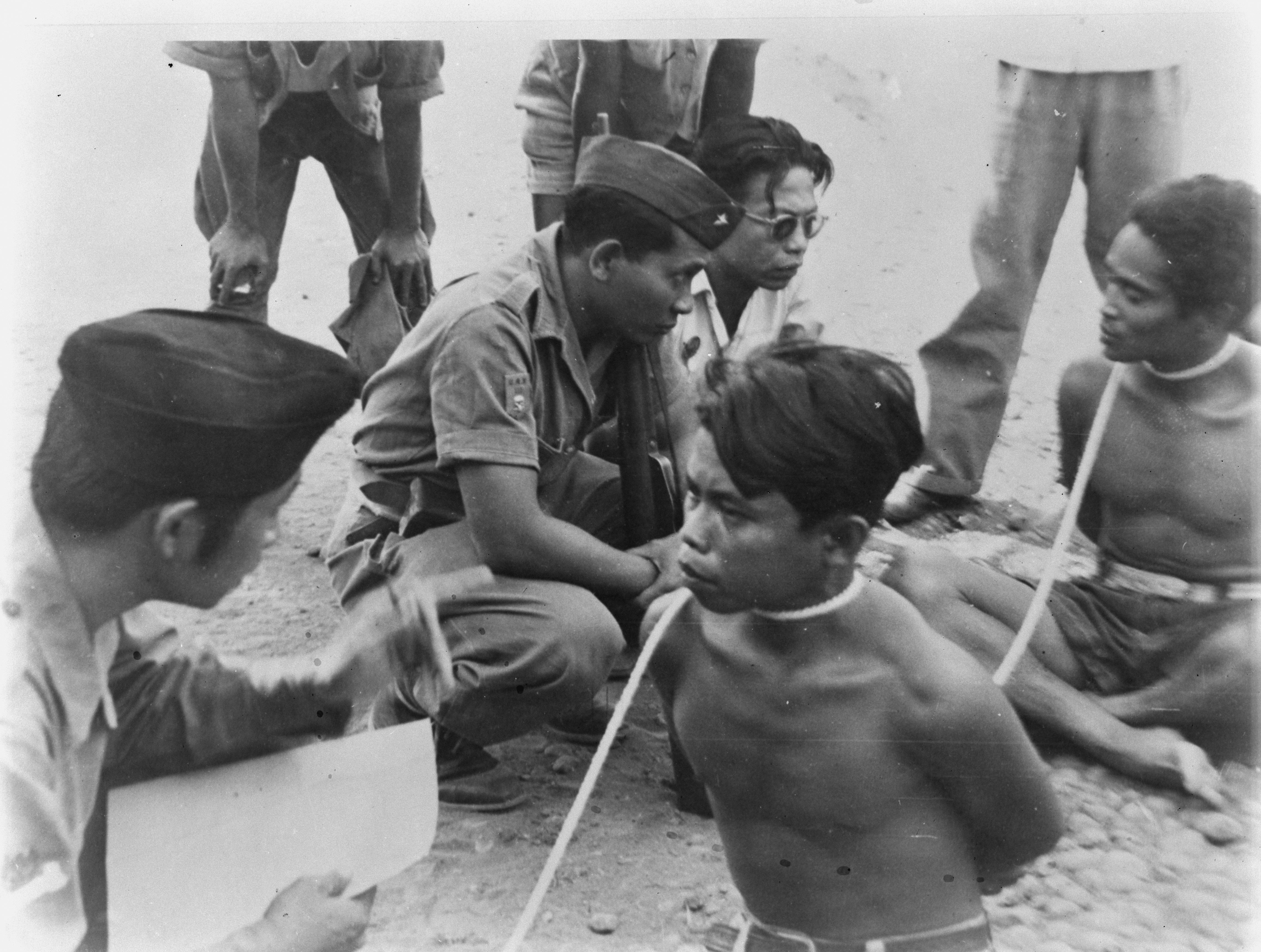 Collection / Archive: Photo collection Service for Army contacts Indonesia Reportage / Series: [DLC] Photos killed Communists by the TNI [made in Madiun, September 1948] Description: Two men with rope are handcuffed by TNI officers Date: September 1948 Location: Indonesia, Madiun, Dutch East Indies Photographer: Photographer Onbekend / DLC Copyright holder: National Archives Material type: Negative (black / white) Number of archive inventory: view access 2.24.04.02 File number: 8812